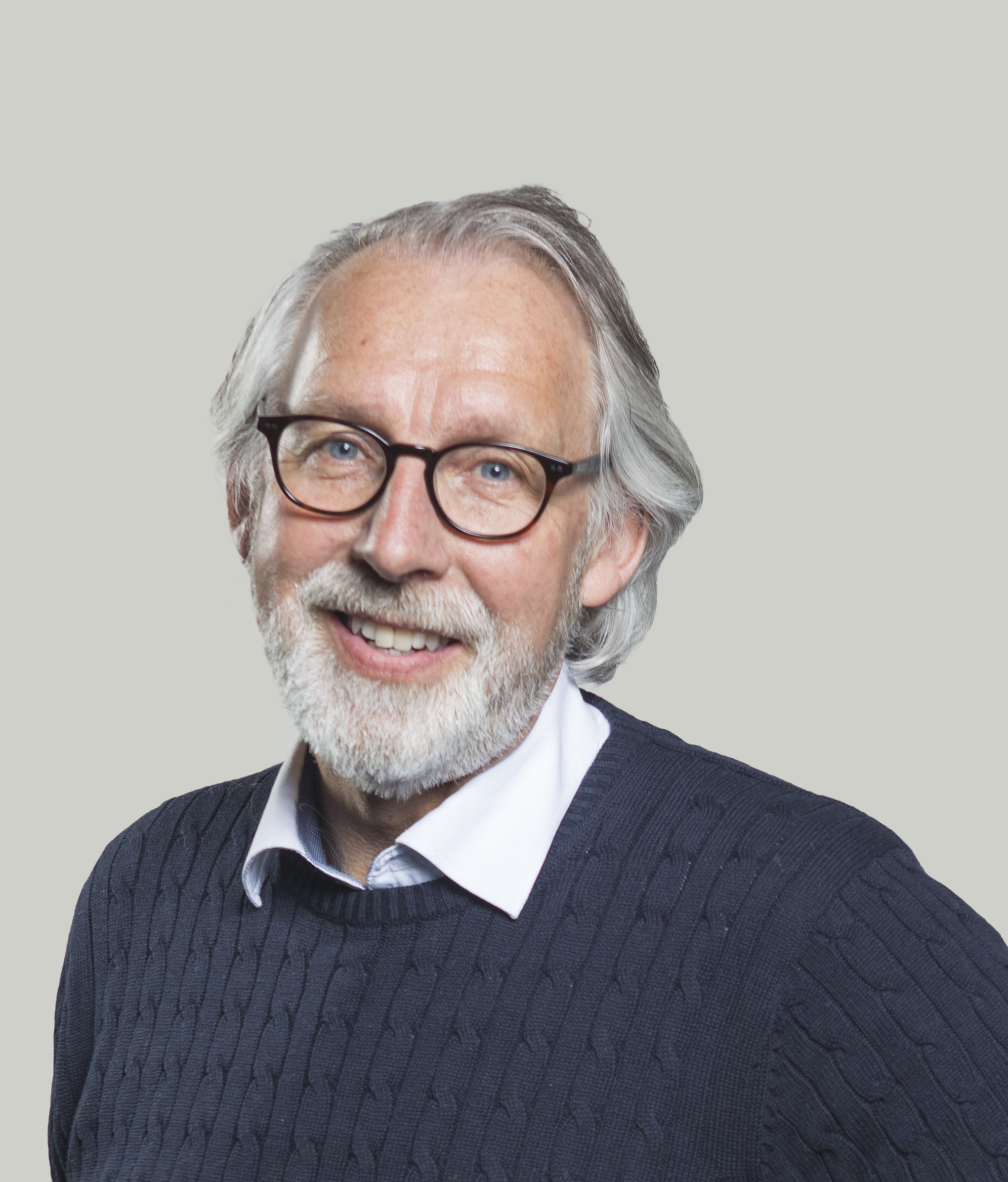 Carl-Erik Grimstad, født 1952. Kandidatbilder fra LM2015. Foto: Jo Straube.